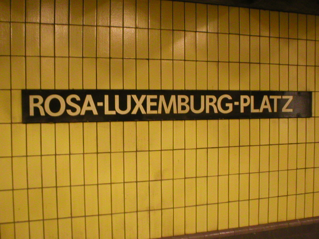 Station sign of the Berlin U-Bahn station Rosa-Luxemburg-Platz, line U2